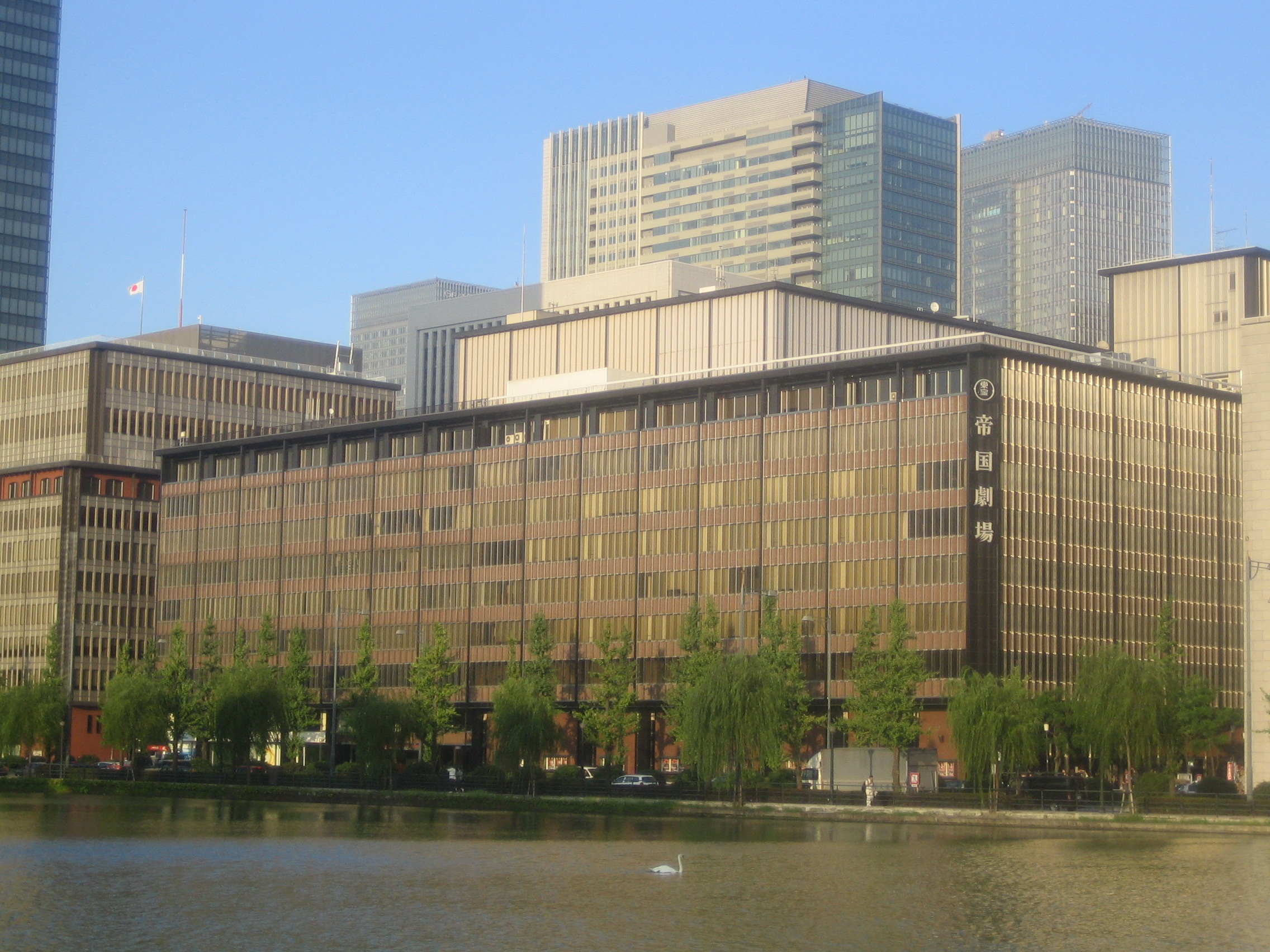 Imperial Garden Theater (帝国劇場 Teikoku Gekijō), at Marunouhi, Chiyoda, Tokyo, Japan